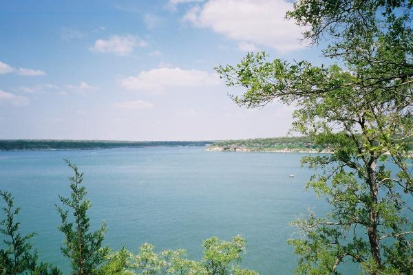 Lake Georgetown, as seen from the Good Water Trail, on the southern side of the lake, between milepost 3 and milepost 4.